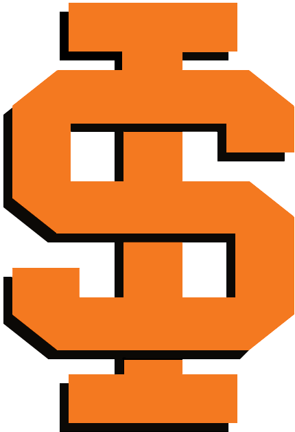 Idaho State wordmark